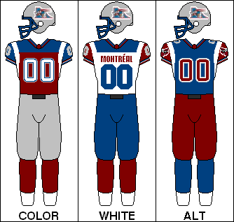 Along with the rest of the league, the Montreal Alouettes used Reebok designed jerseys starting in the 2005 season. The home and away jerseys didn't change much, though.